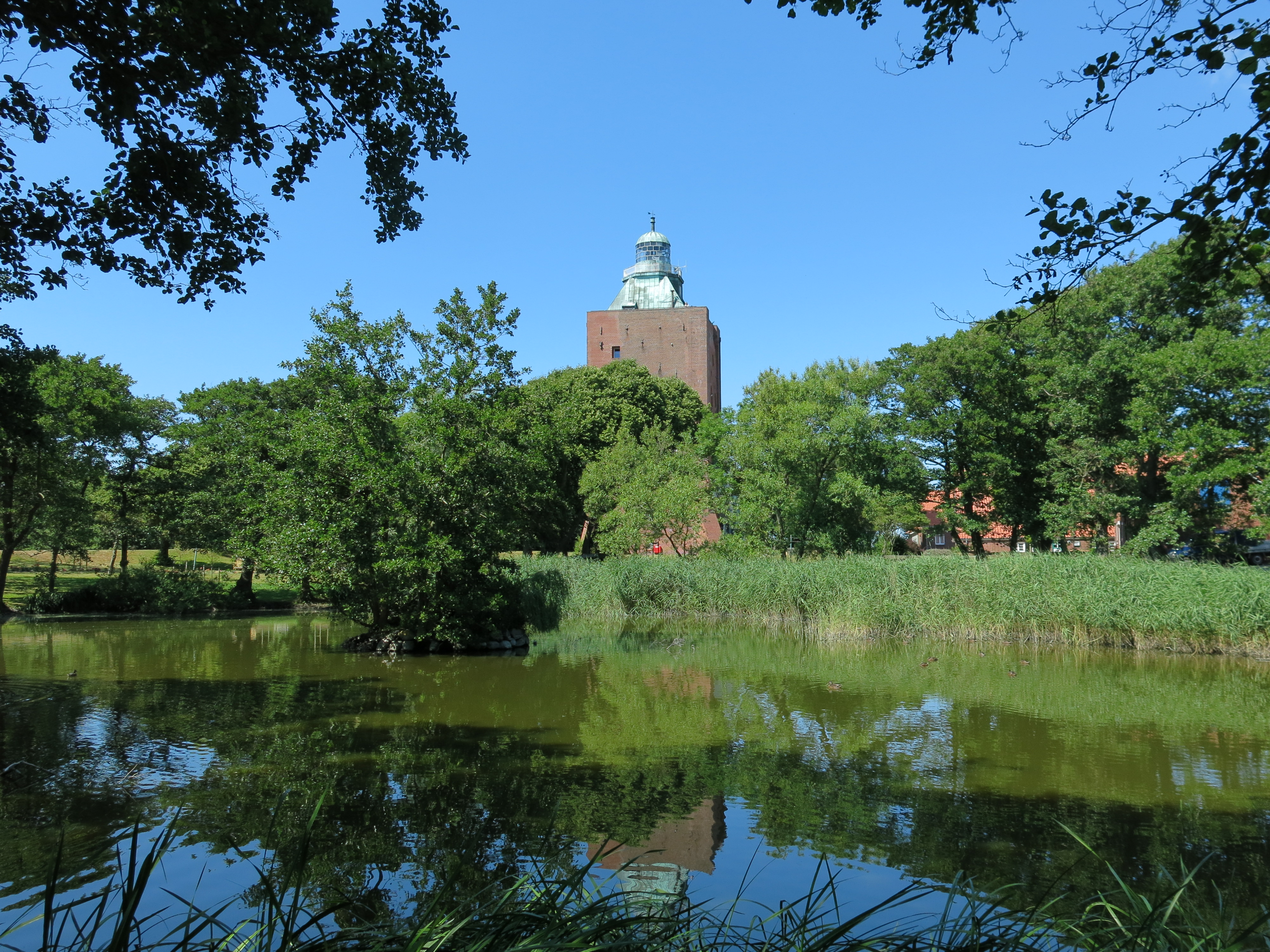 Great Tower Neuwerk